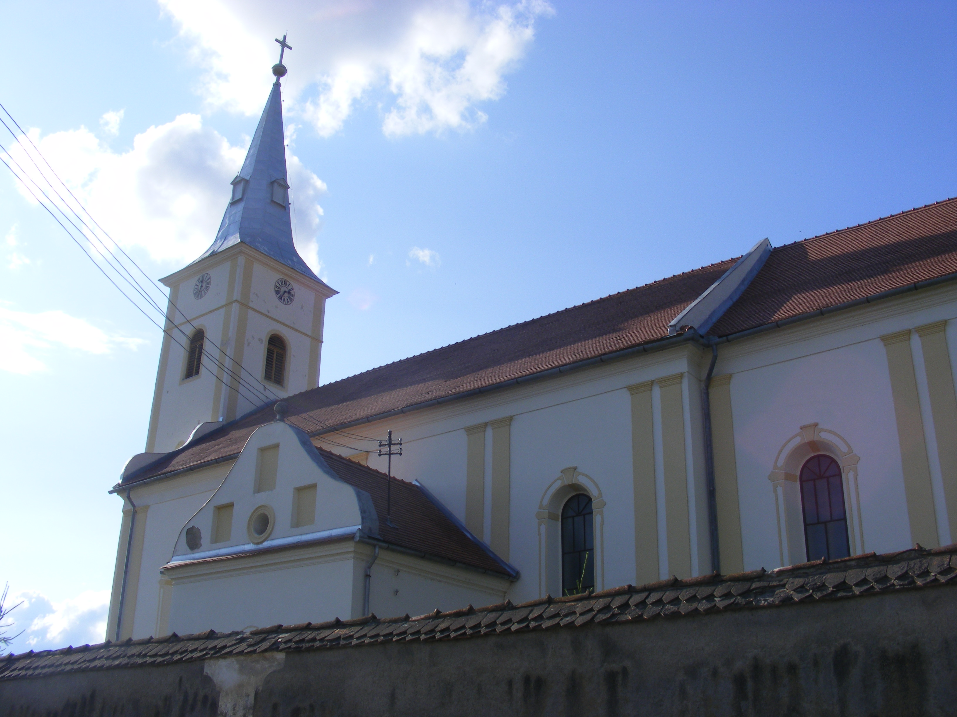 Romano-catholic church in Csíkszentimre (Sântimbru).